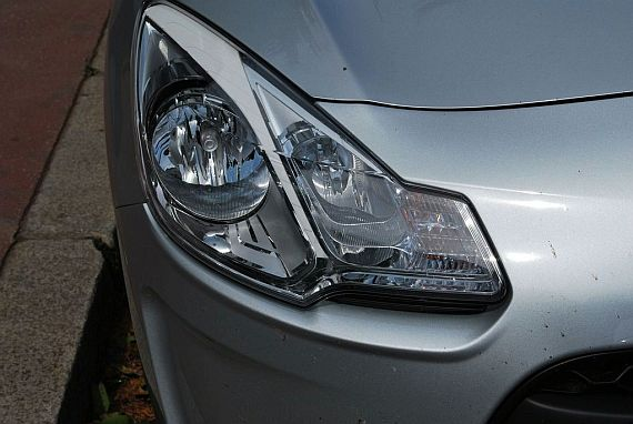 Citroen C3 second generation.